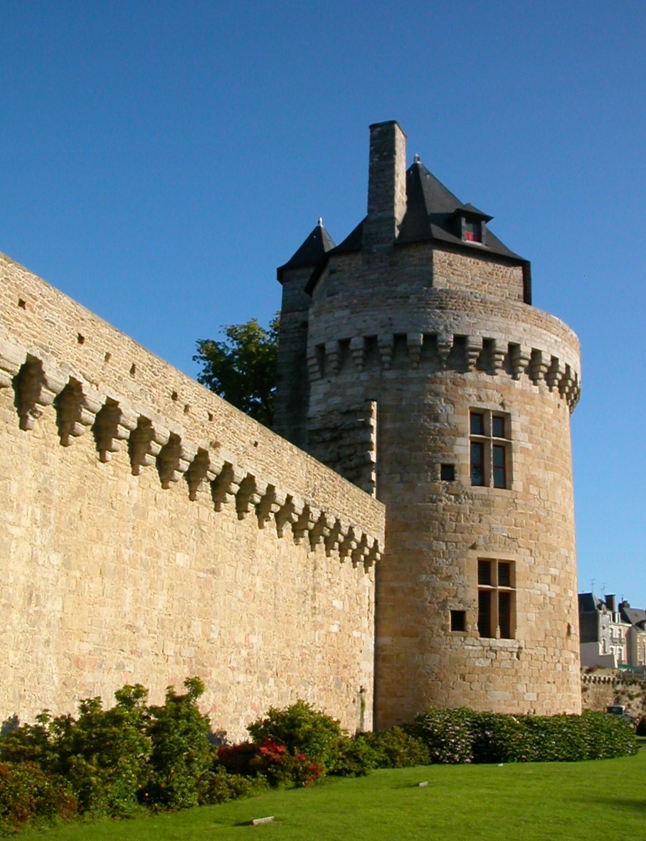 The Constable Tower, City Walls, Gwened, Morbihan, Breizh .